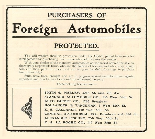 undated ad of foreign car importers under selden patent protection before